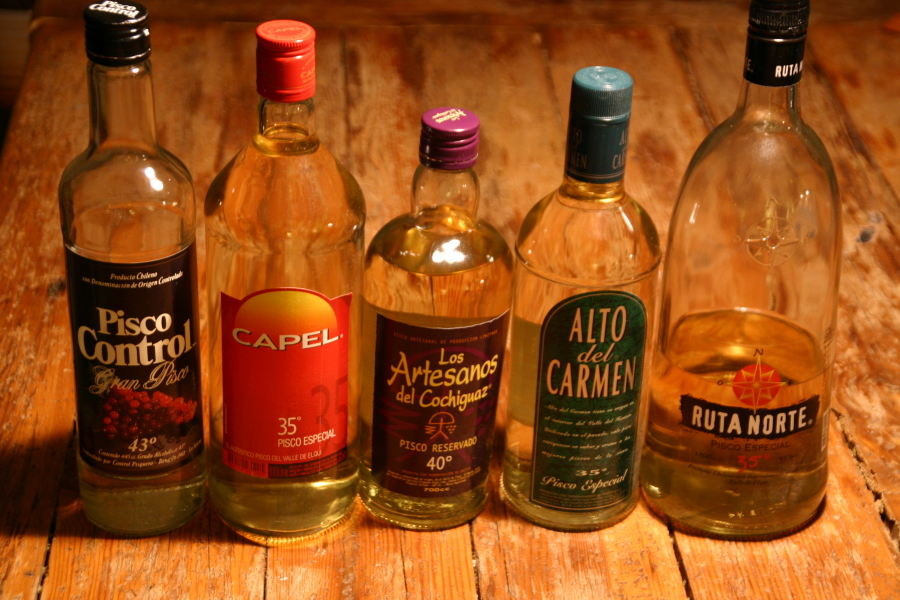 Bottles of Chilean Pisco